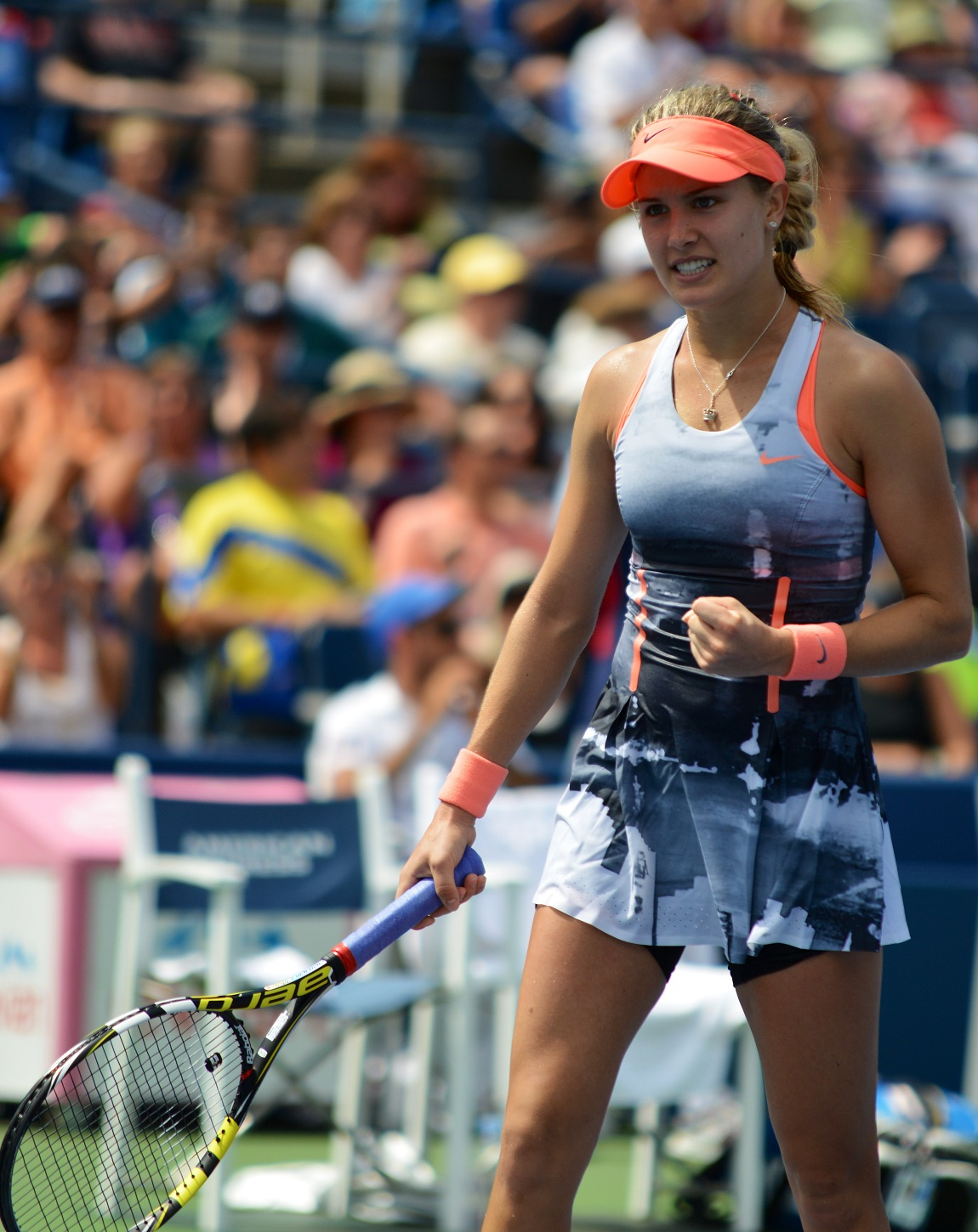 Eugenie Bouchard at the 2013 US Open